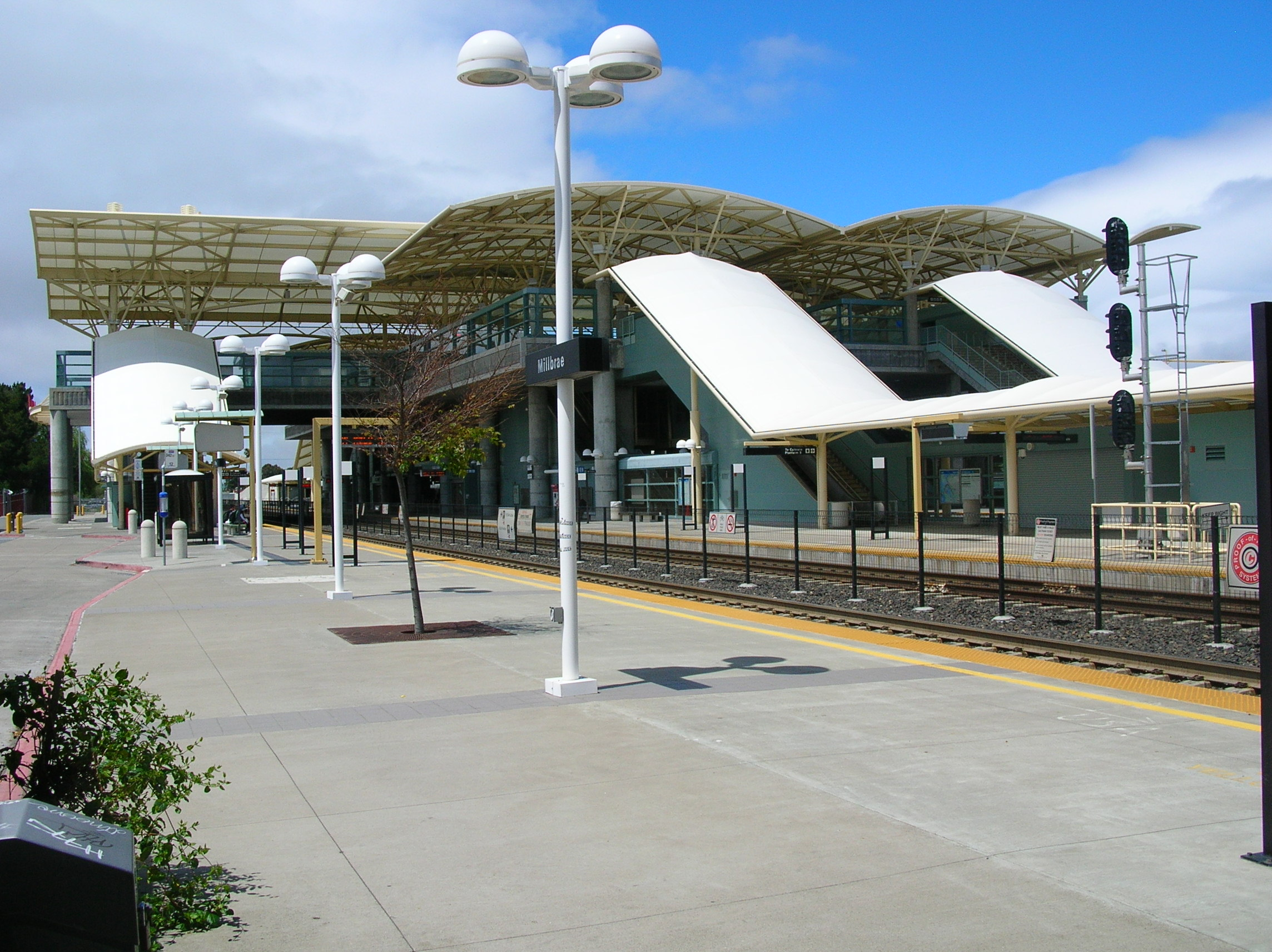 Millbrae station viewed from the Caltrain platform in 2009